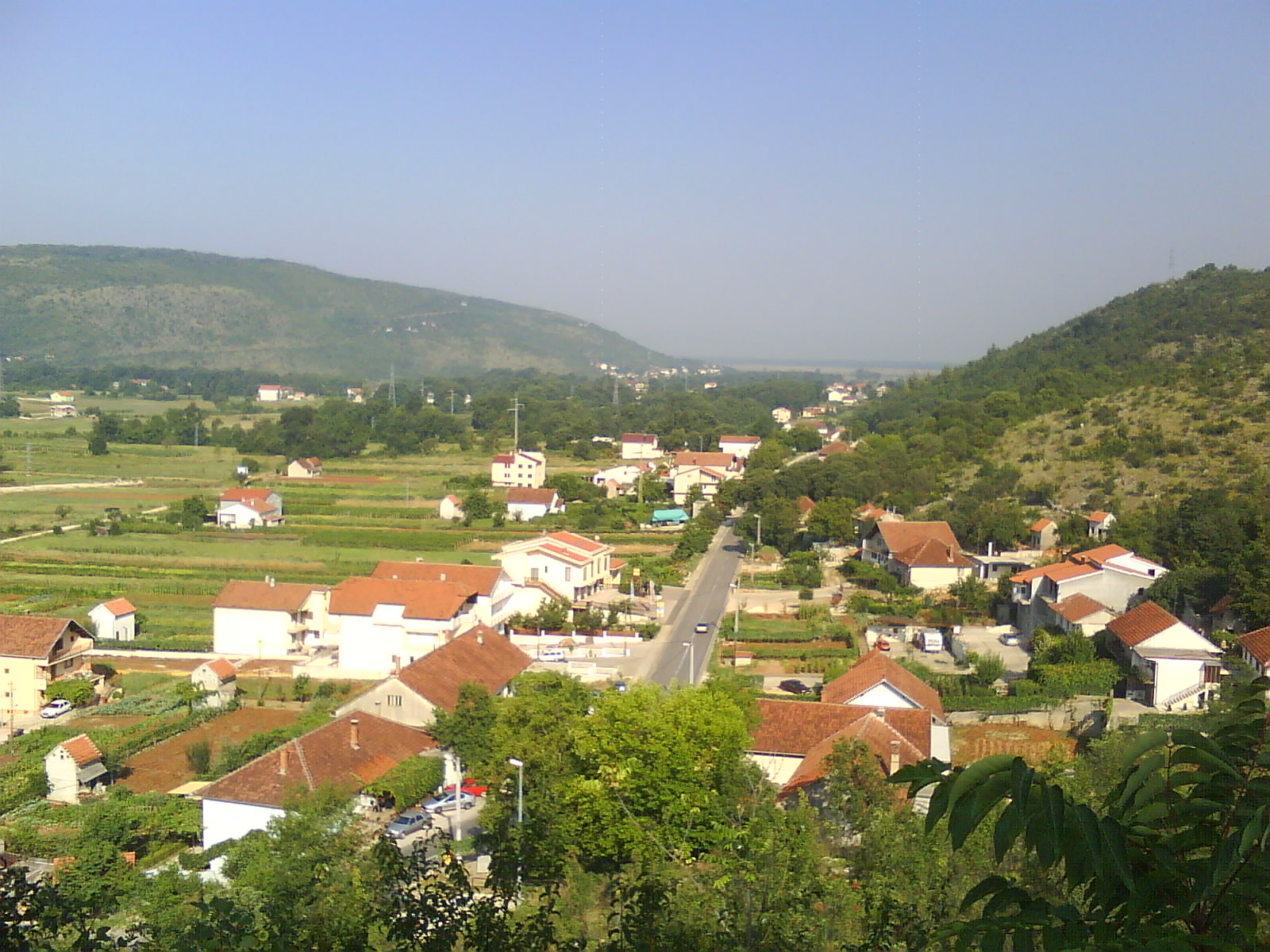 Panorama, city of Grude